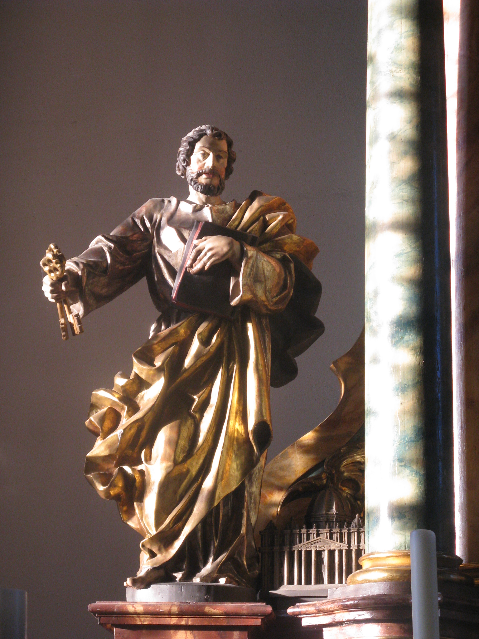 Mernes/Spessart, Germany; St. Peter's Church, St. Peter